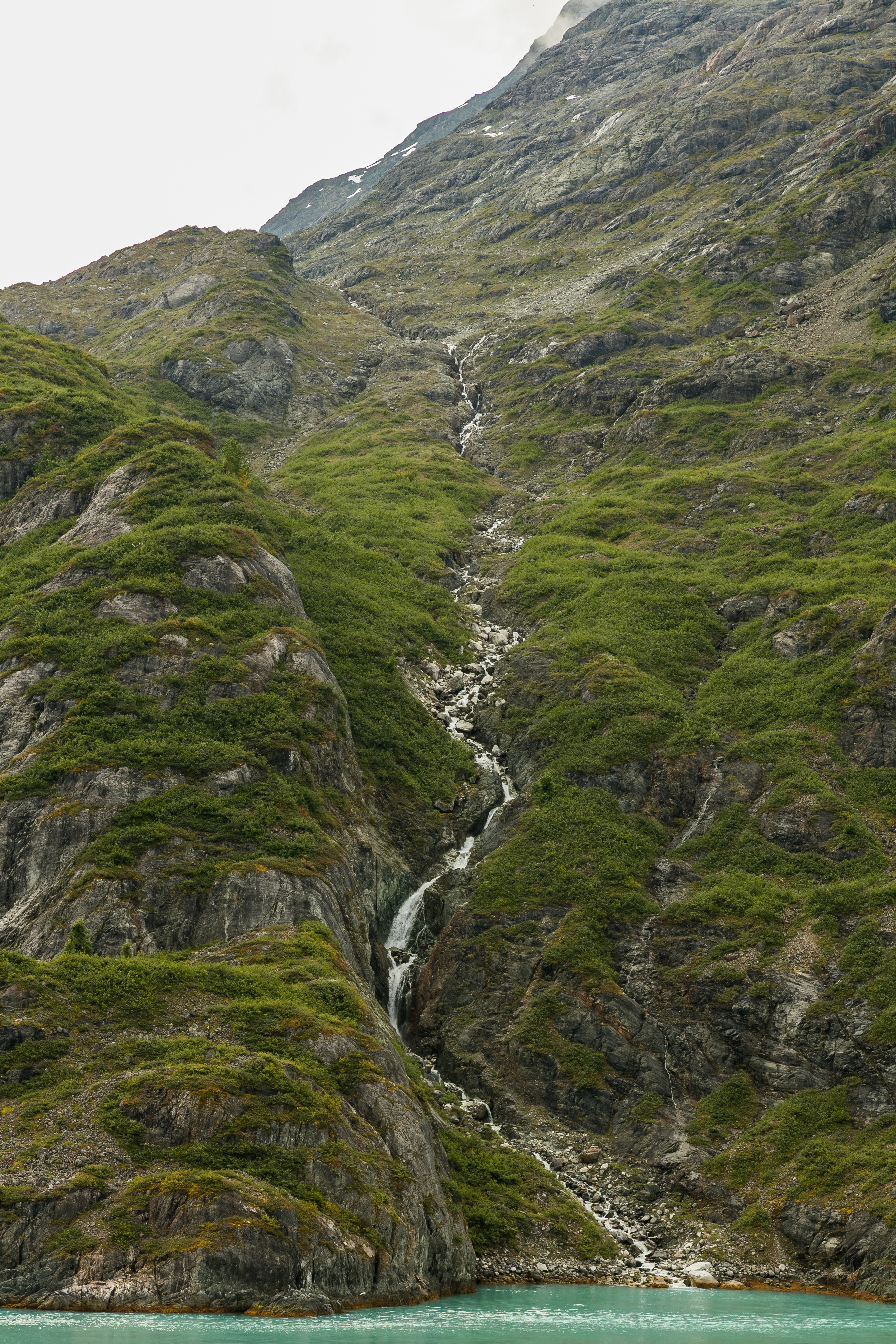 Glacier Bay National Park, Alaska, United States